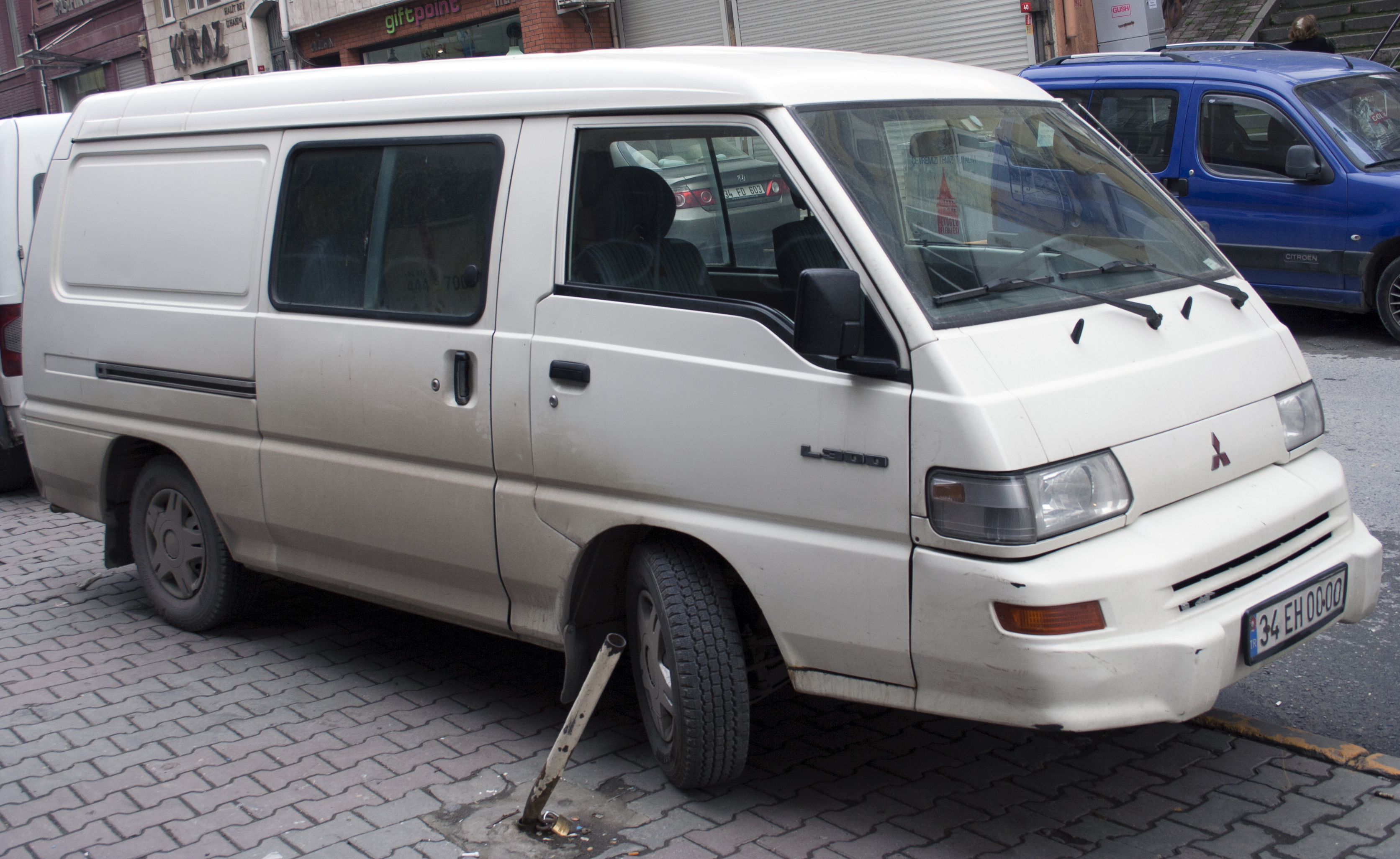 Mitsubishi L300 Van 2.5D, late long wheelbase model, seen in the Firüzağa neighborhood of Beyoğlu, Istanbul. Some very late models like this example received this giant front bumper, presumably due to safety legislation.